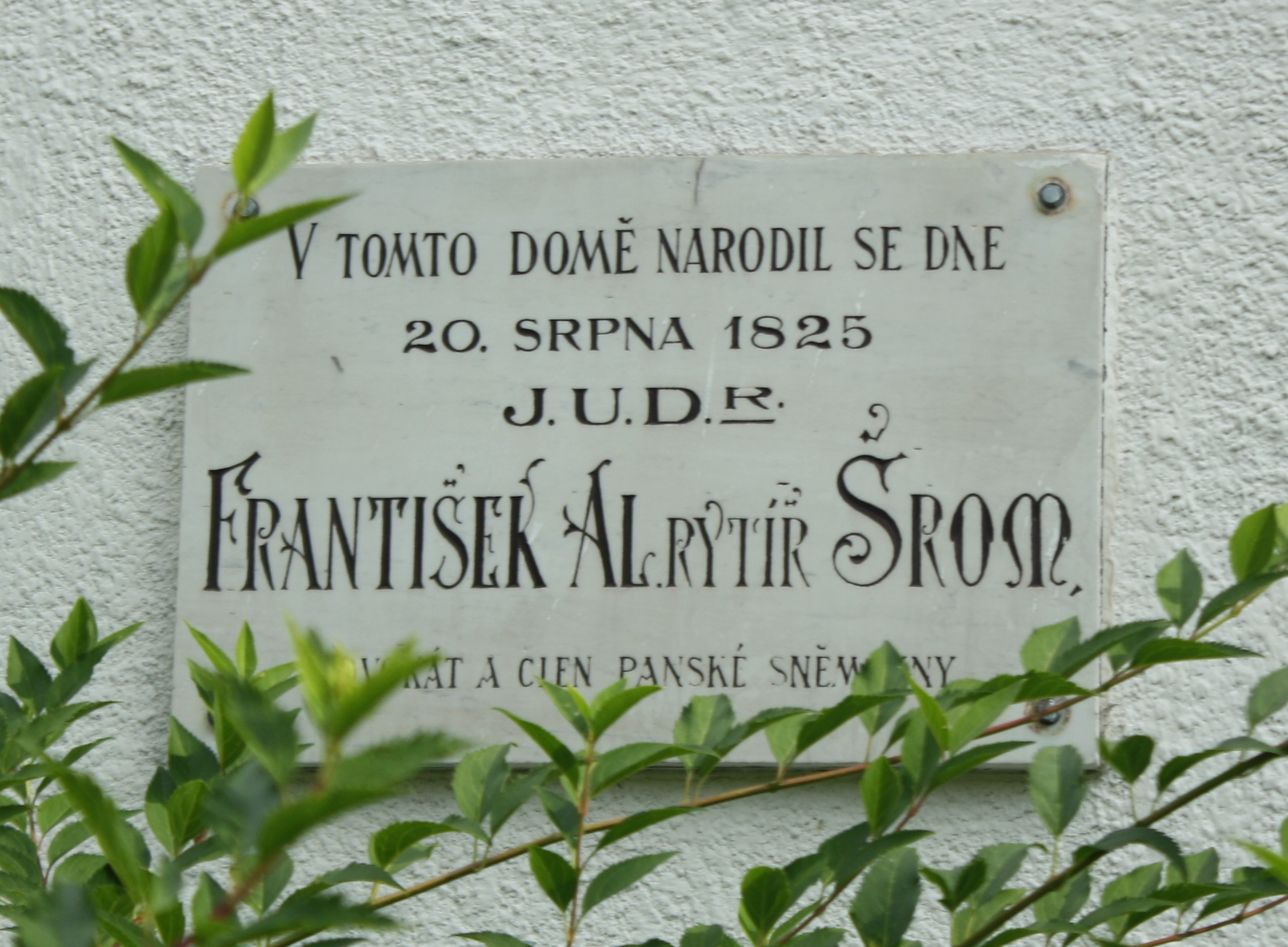 Municipality Milenov, Nový Jičín District, Moravian-Silesian Region, Czechia